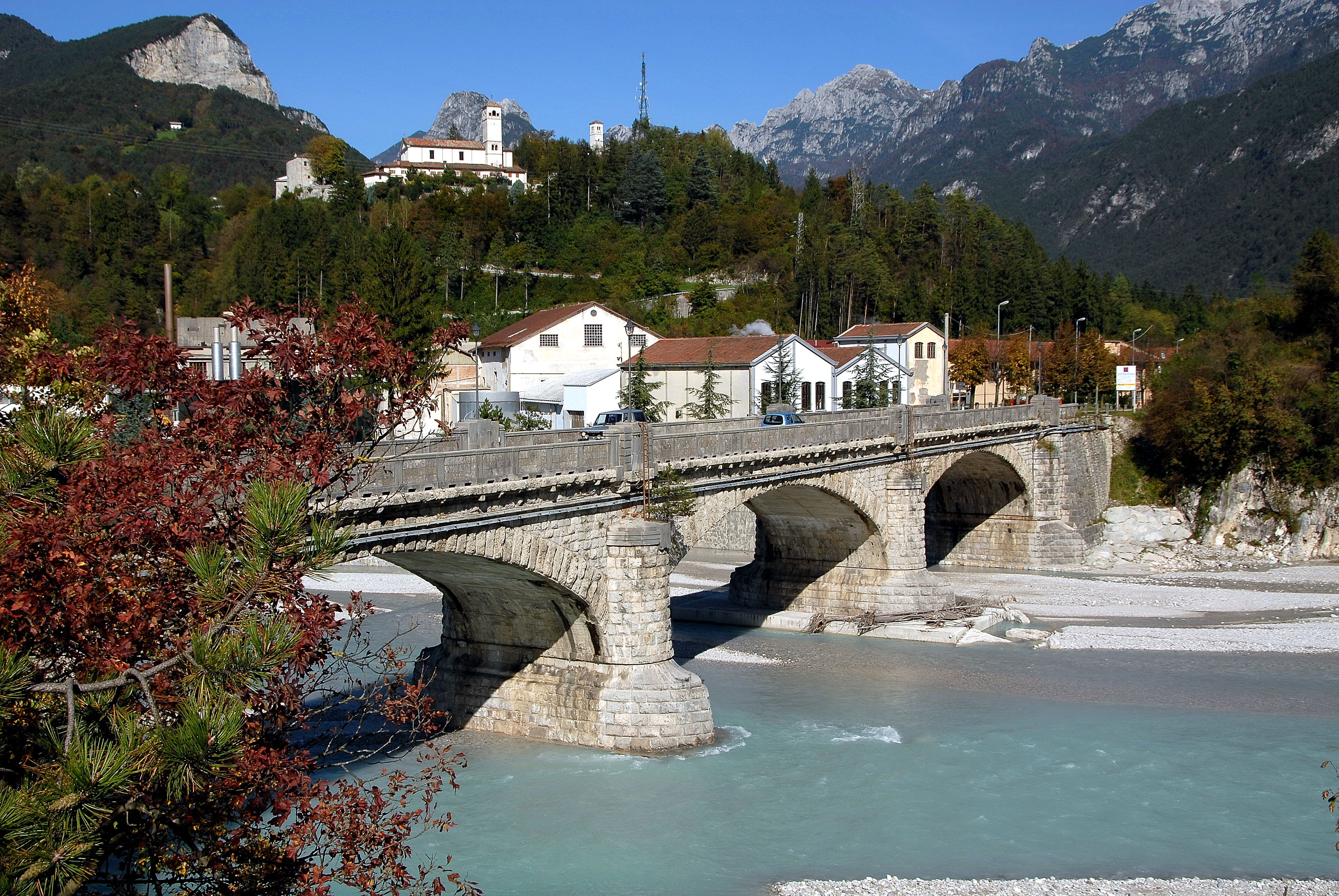 Bridge across the Fella river with view at the abbey Saint Gallo, municipality Moggio Udinese, region Friuli-Venezia Giulia, Italy